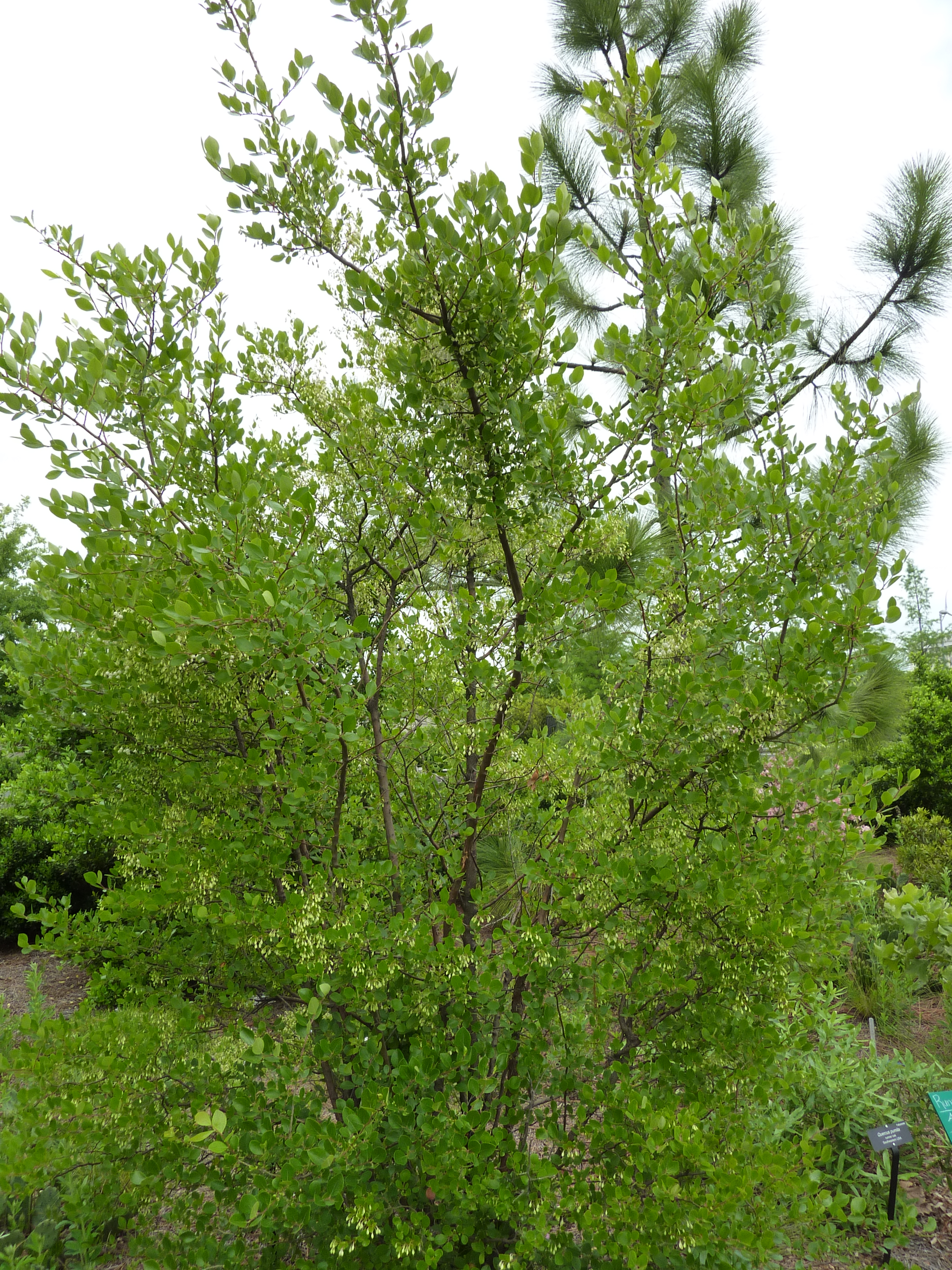 Vaccinium arboreum or farkleberry at the United States Botanic Garden